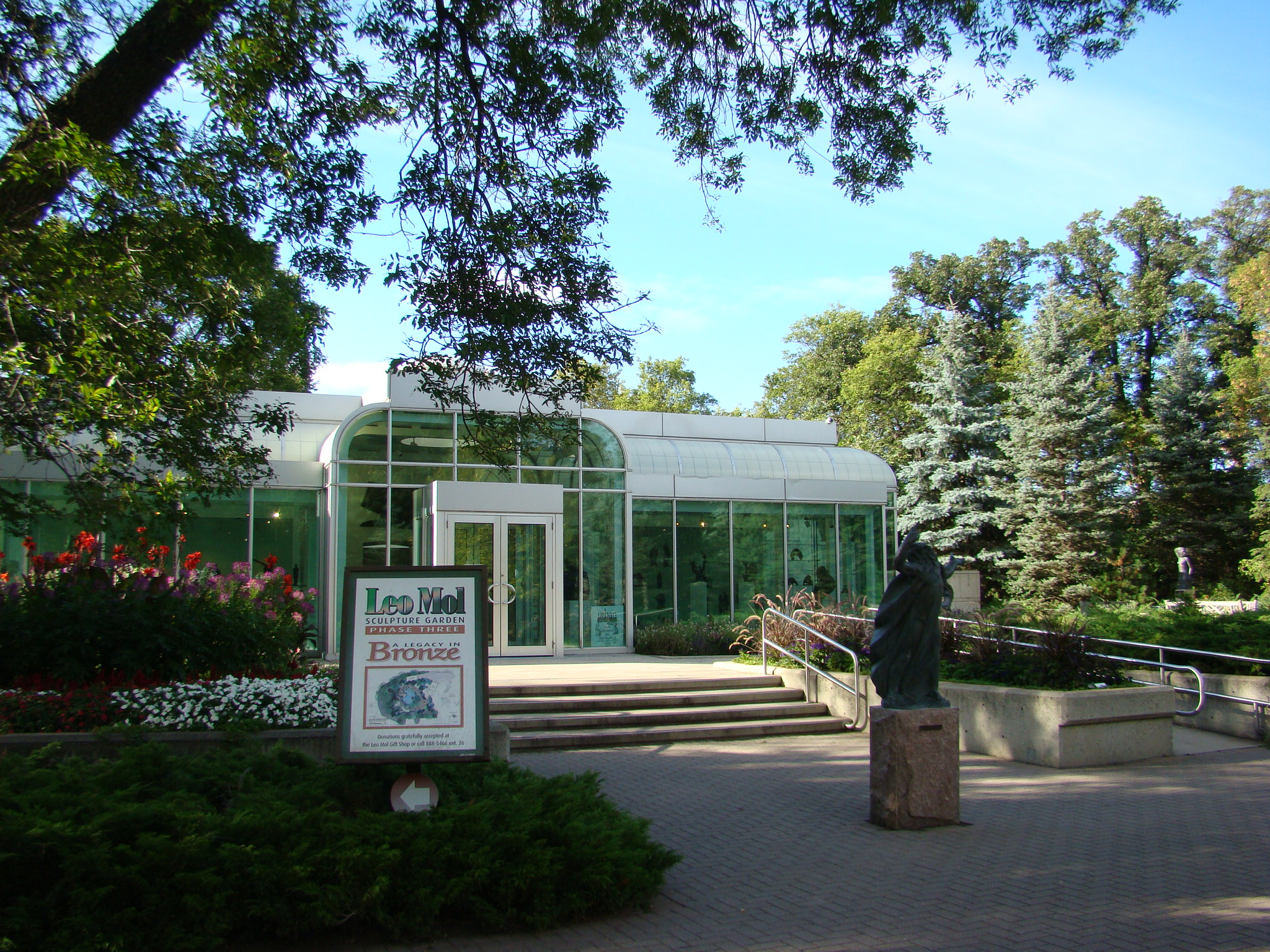 Assiniboine Park Winnipeg Manitoba Canada